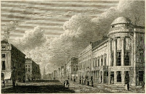 Part of series "Views of London." Print made by Charles Heath, published by Hurst, Robinson & Co, after William Westall. View of Regent Street looking north towards All Souls Church, with the Argyll Rooms on the right.